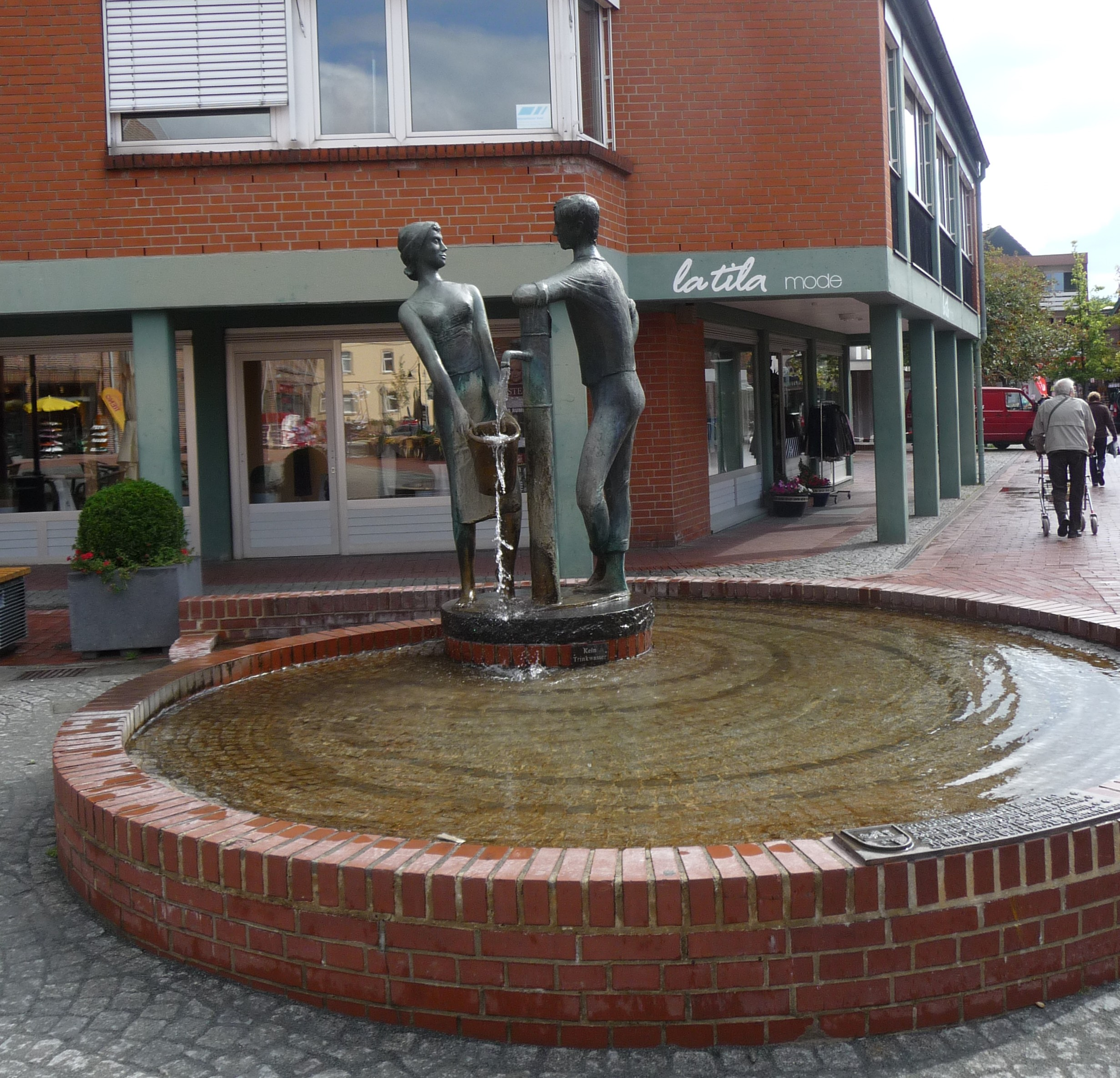 Heiratsbrunnen (=Wedding Fountain) in Soltau